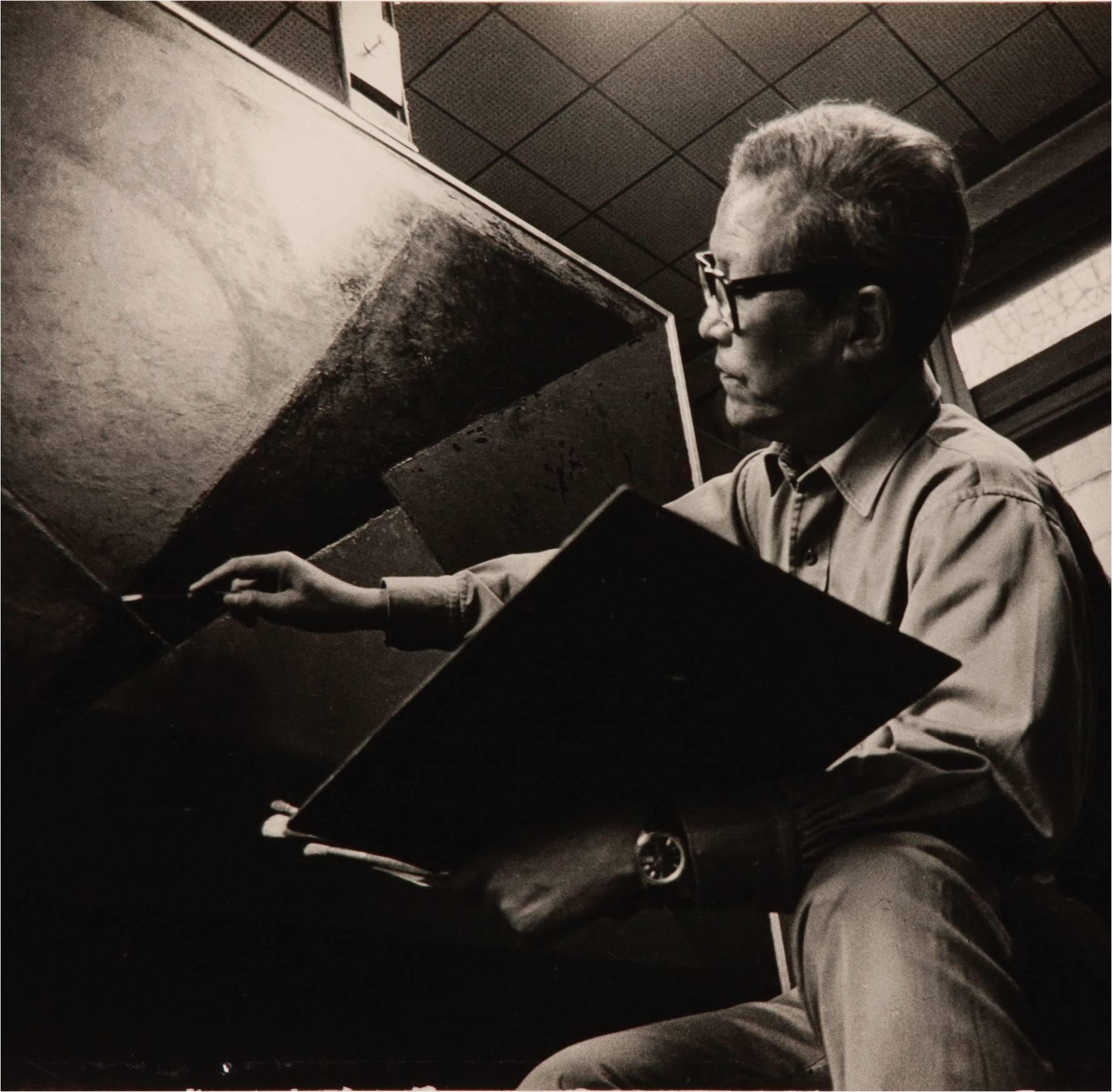 The modern painter Yoo Youngkuk was painting on his canvas. This picture was originally taken By Korean photographer Lim Eung Sik aroud 1968.